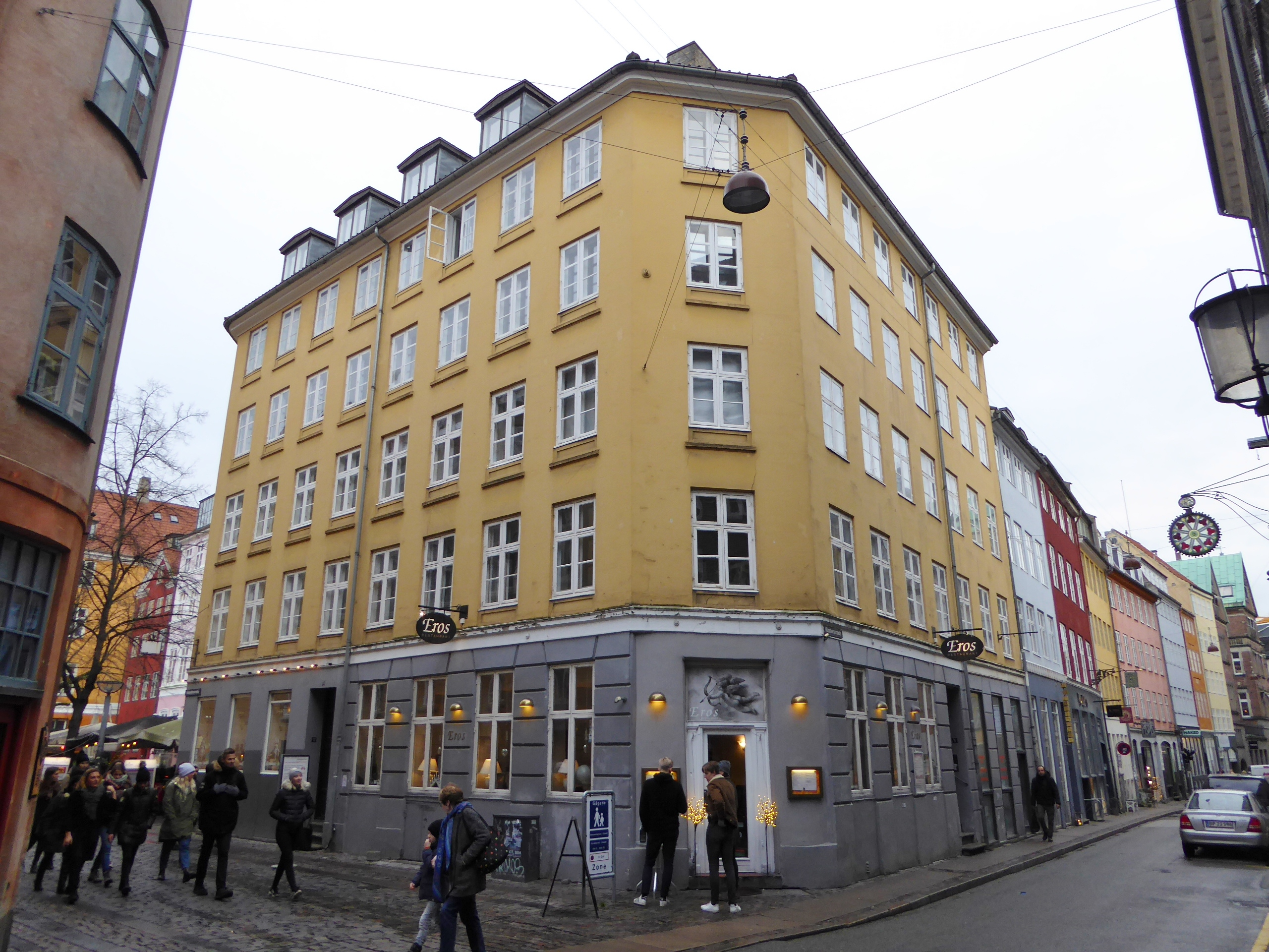 Apartment building at the corner of Gråbrødrestræde and Klosterstræde in Indre By in Copenhagen.